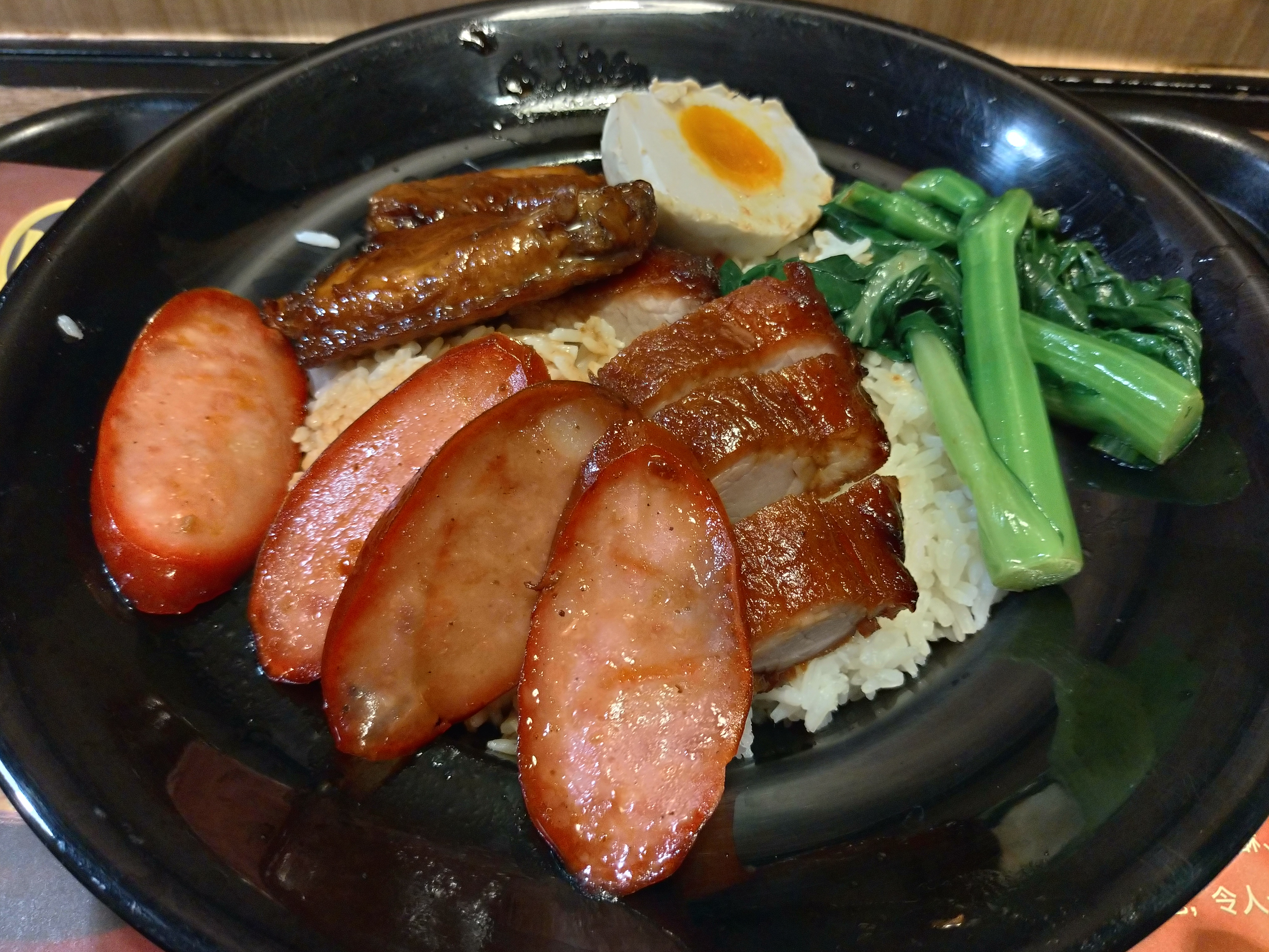 A bowl of siu mei rice at a fast food restaurant in HK.